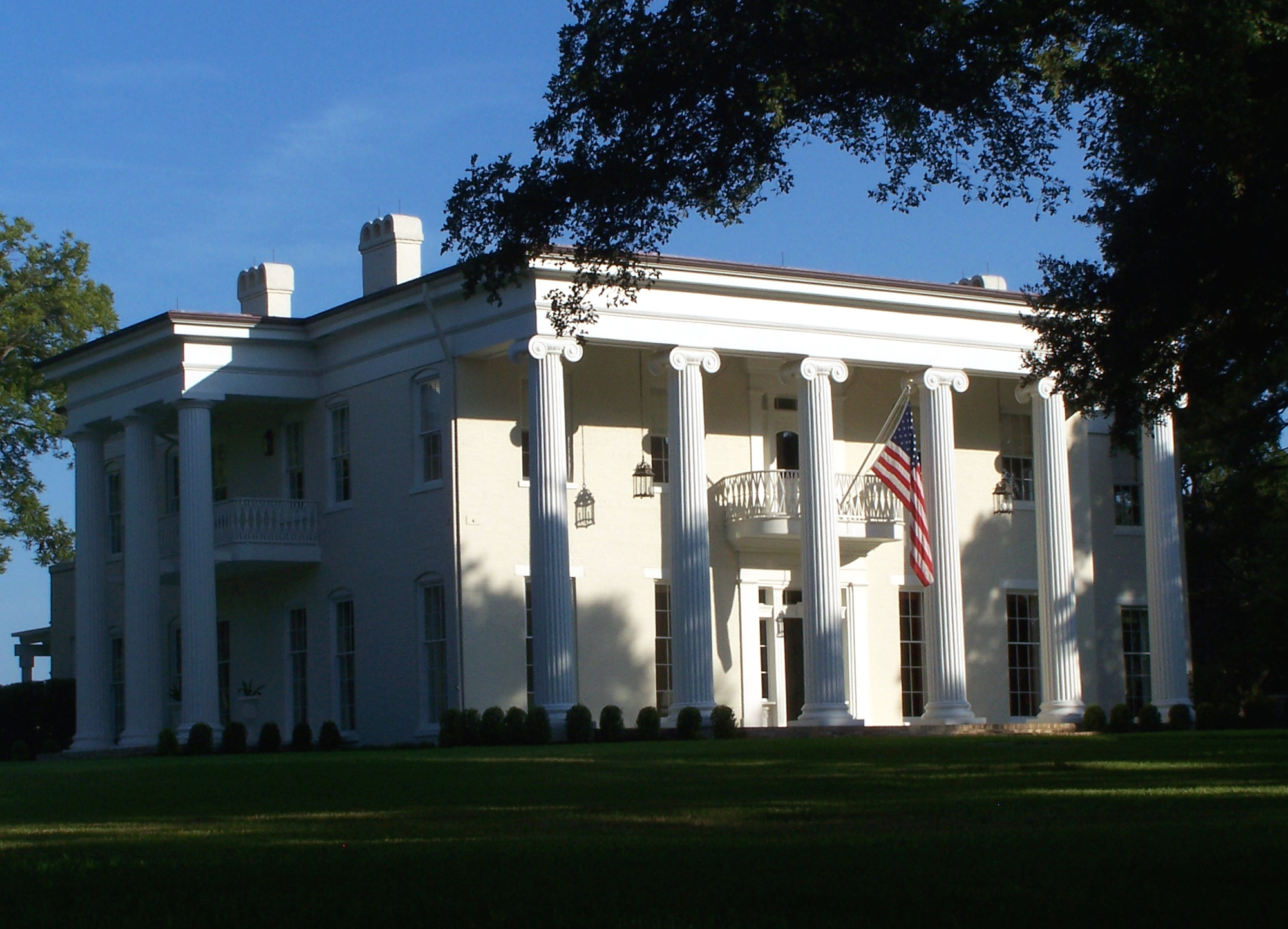 Woodlawn Estate, also known as the Pease Mansion, located at 6 Niles Rd, Austin, Texas, United States, designed in greek revival style by Abner Cook, was completed in 1853. It was designated a Recorded Texas Historic Landmark in 1962 and listed on the National Register of Historic Places on August 25, 1970.